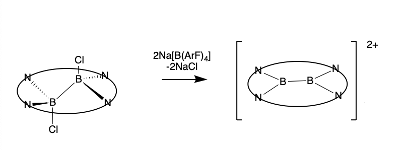 Chemical structure of Boron porphyrins johbrbr